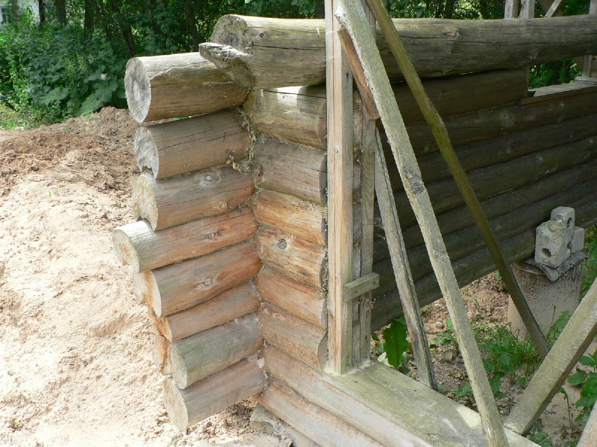 Log cabin corner joints, in Poland.